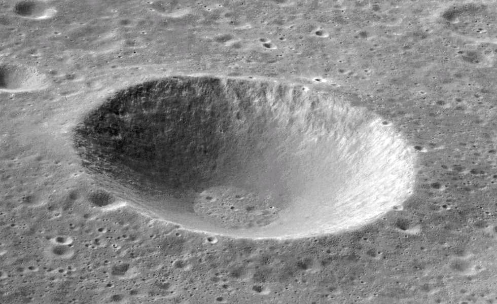 Oblique view of Harden (within Mendeleev), on the far side of the moon.